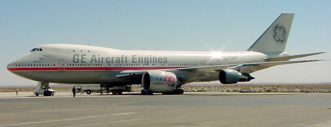 GE Aircraft Engines' Boeing 747 with the GE90-115 engine on the #2 pylon at Mojave during flight test of the world's largest jet engine